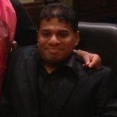 Senarath with wife Lasanthi at the Quebec Parliament